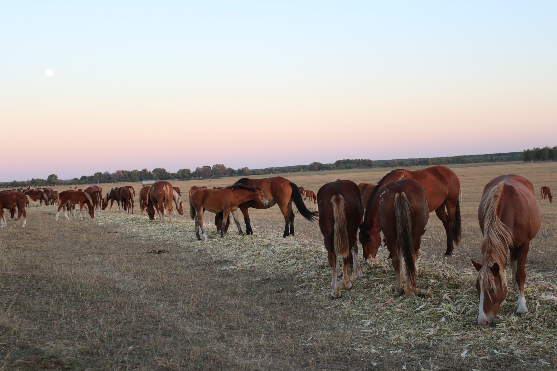 Przewalski's horses feed at sunset in Polesie State Radioecological Reserve. They entered the Belarusian territory of the exclusion zone from Ukraine. Their number is about 30 individuals